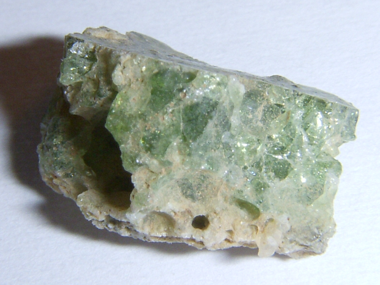 Small piece of trinitite, detail, showing side structure